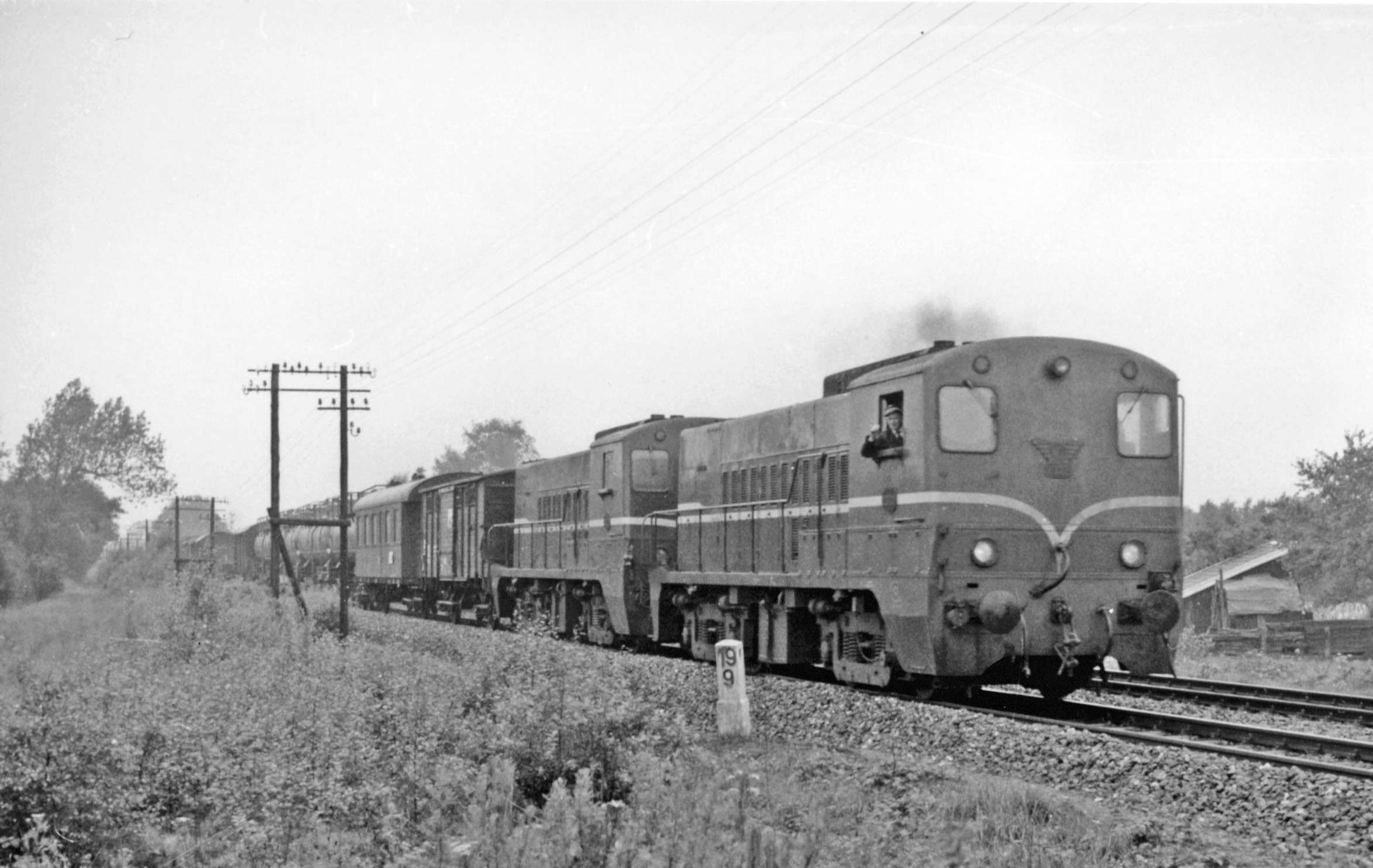 Eastbound freight, hauled by two Bo-Bo Diesels, on Internal main line between Hengelo (Netherlands) and Rheine (Germany), 1961.